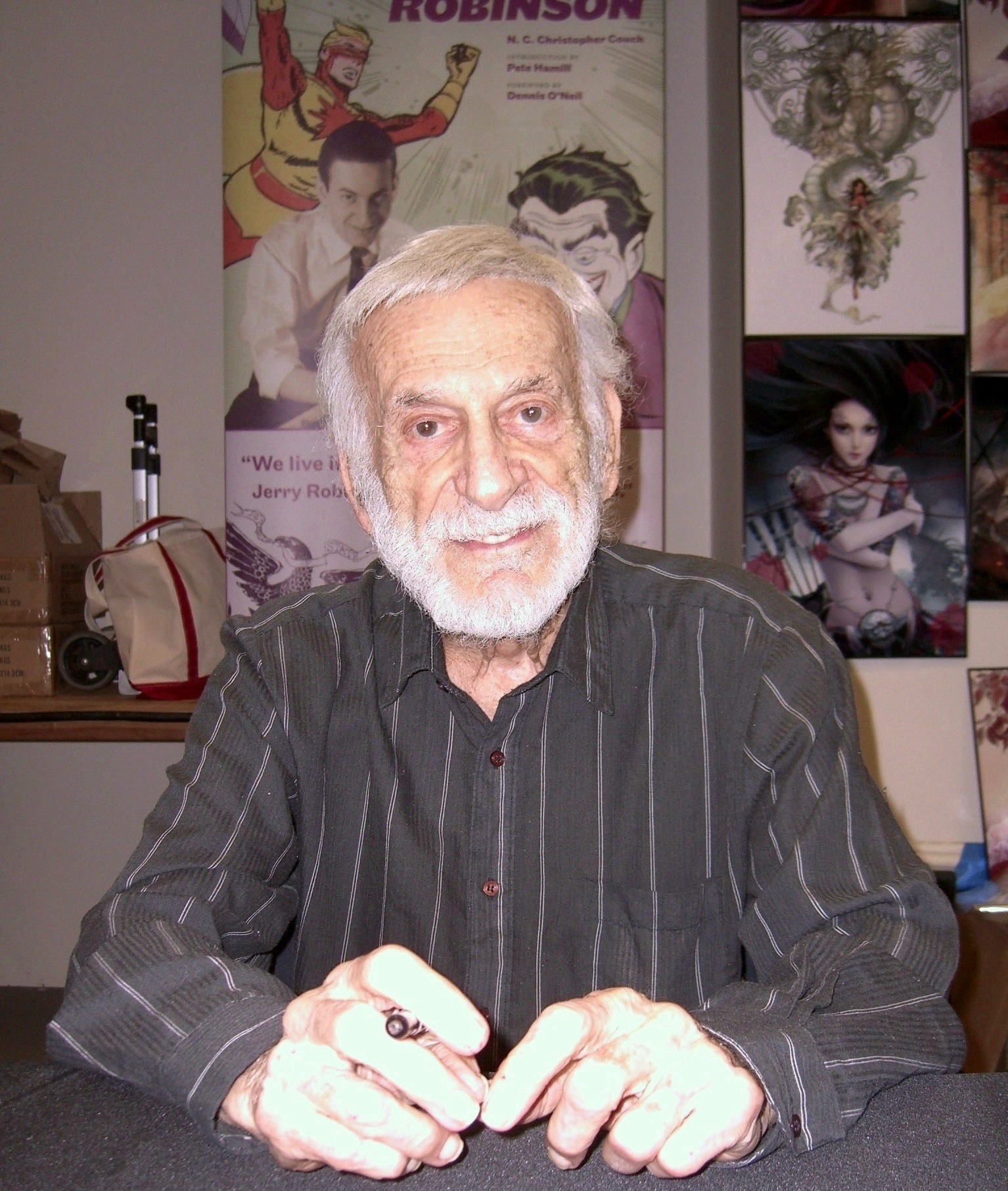 Comics artist Jerry Robinson, the creator of The Joker, at the Big Apple Convention in Manhattan, May 21, 2011. Photographed by Luigi Novi. This photo is not in the public domain. It may, however, be used, modified and published for any purpose, free of charge, only if the photographer is properly credited, either by linking the photograph to this page, or with an easily visible credit to the photographer placed near the photo in each instance in which it is used. (See licensing information below.) Publication of this photo without this proper attribution constitutes copyright infringement. If you have any questions, you can contact me on my Wikipedia Talk Page.